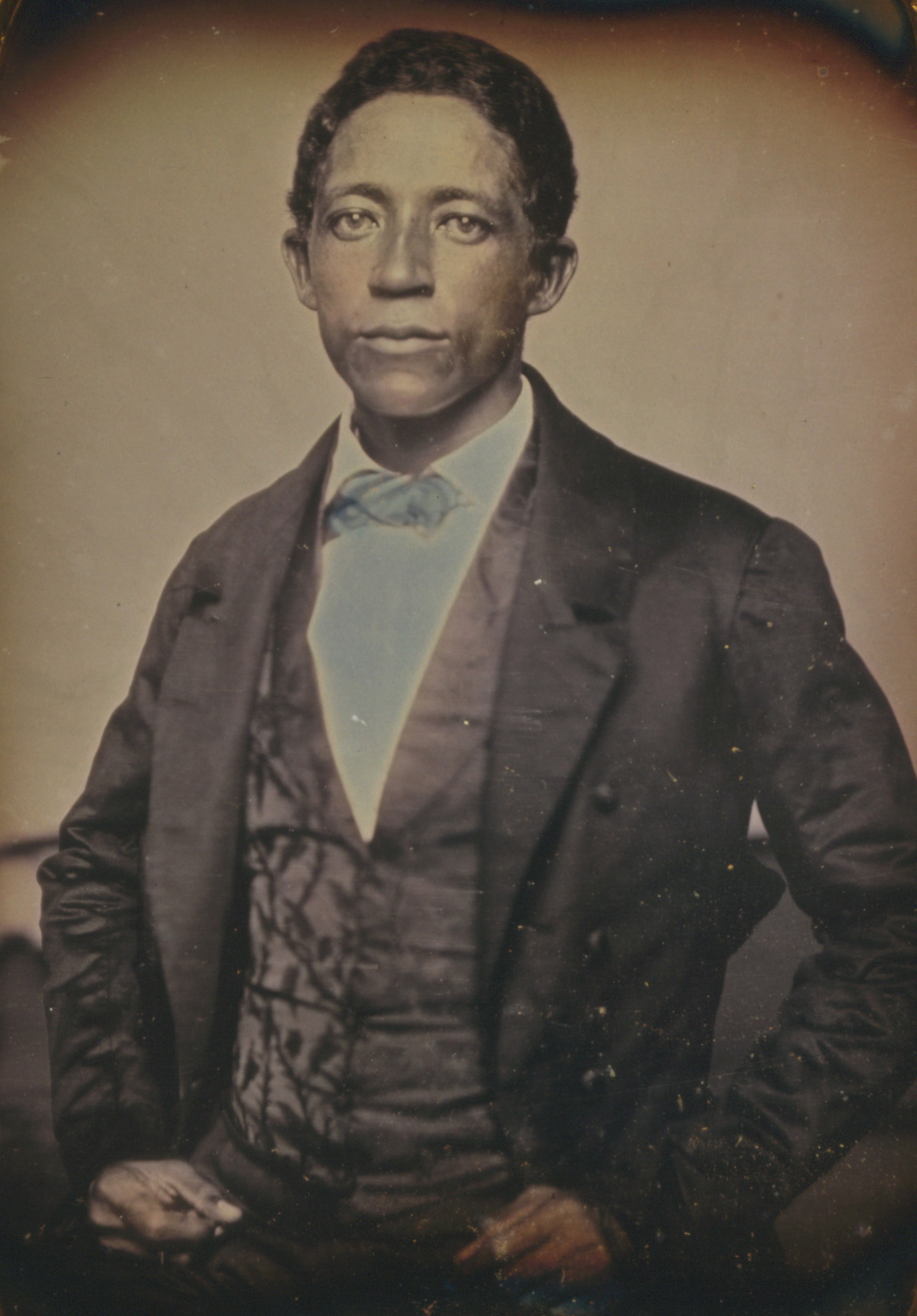 Urias A. McGill, half-length portrait, facing front Digital ID: cph 3d01948